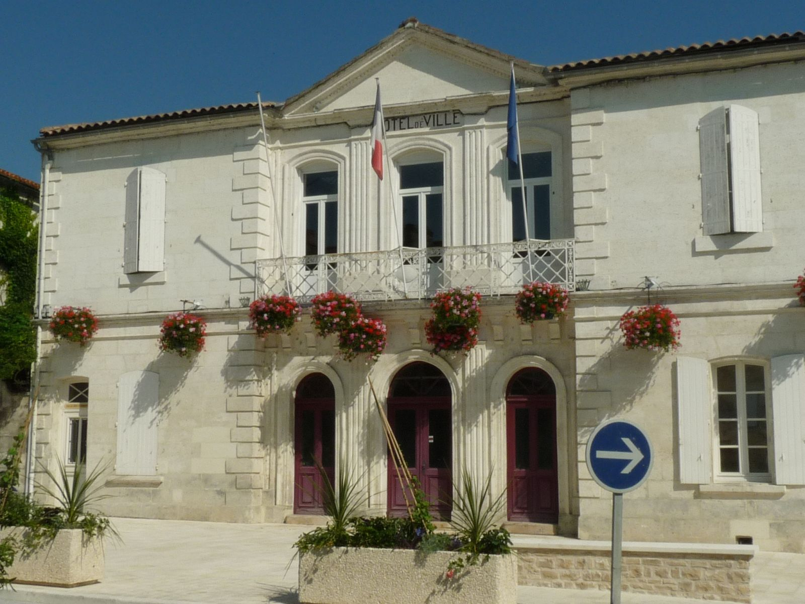 town hall of Magnac-sur-Touvre (16), France